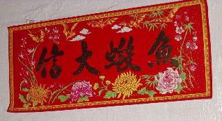 wish for fish